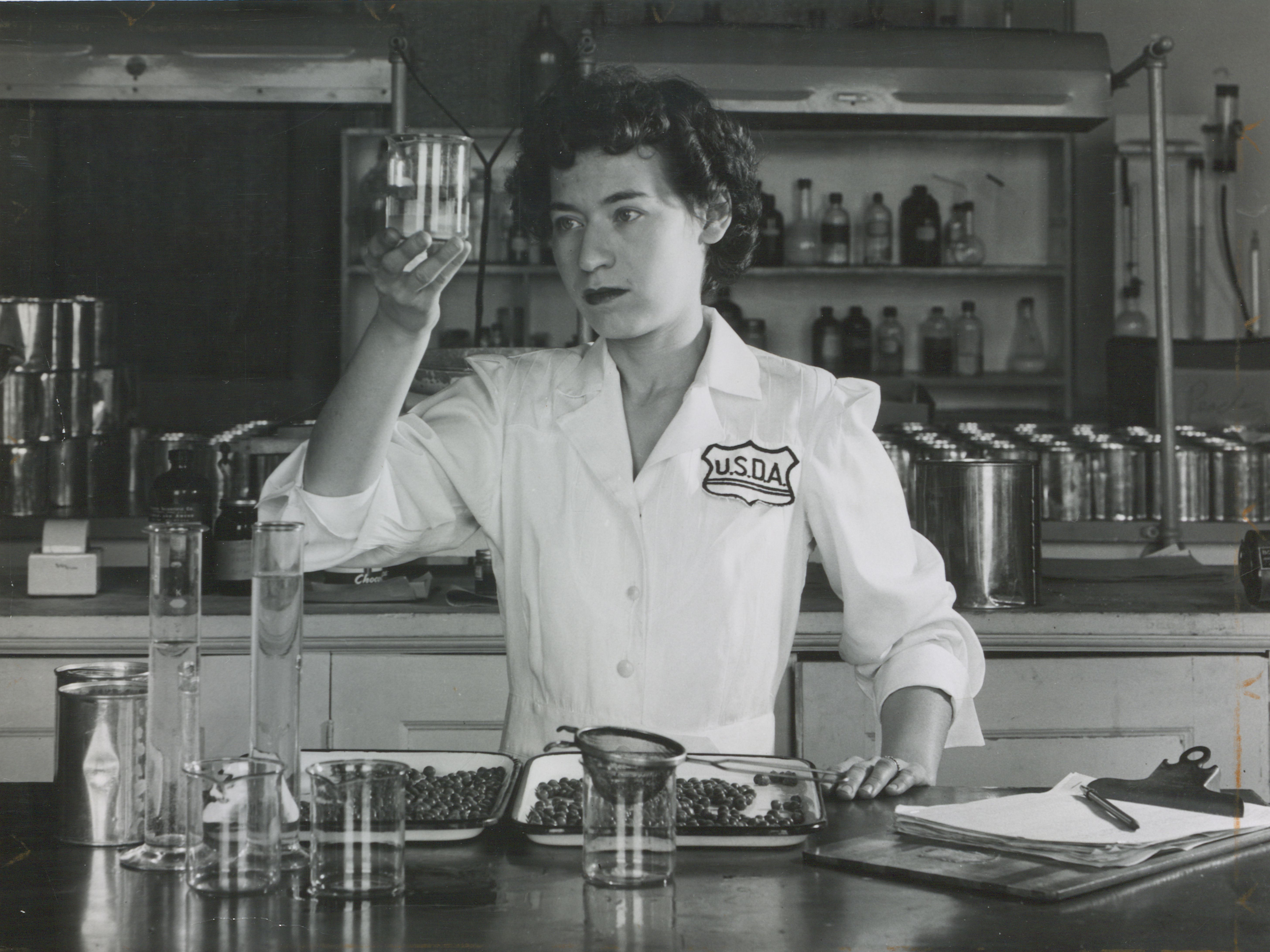 This image was taken between 1936-1963. A researcher at Consumer Reports considers canned peas. original file name - 1 7 General 1936-1963-0242